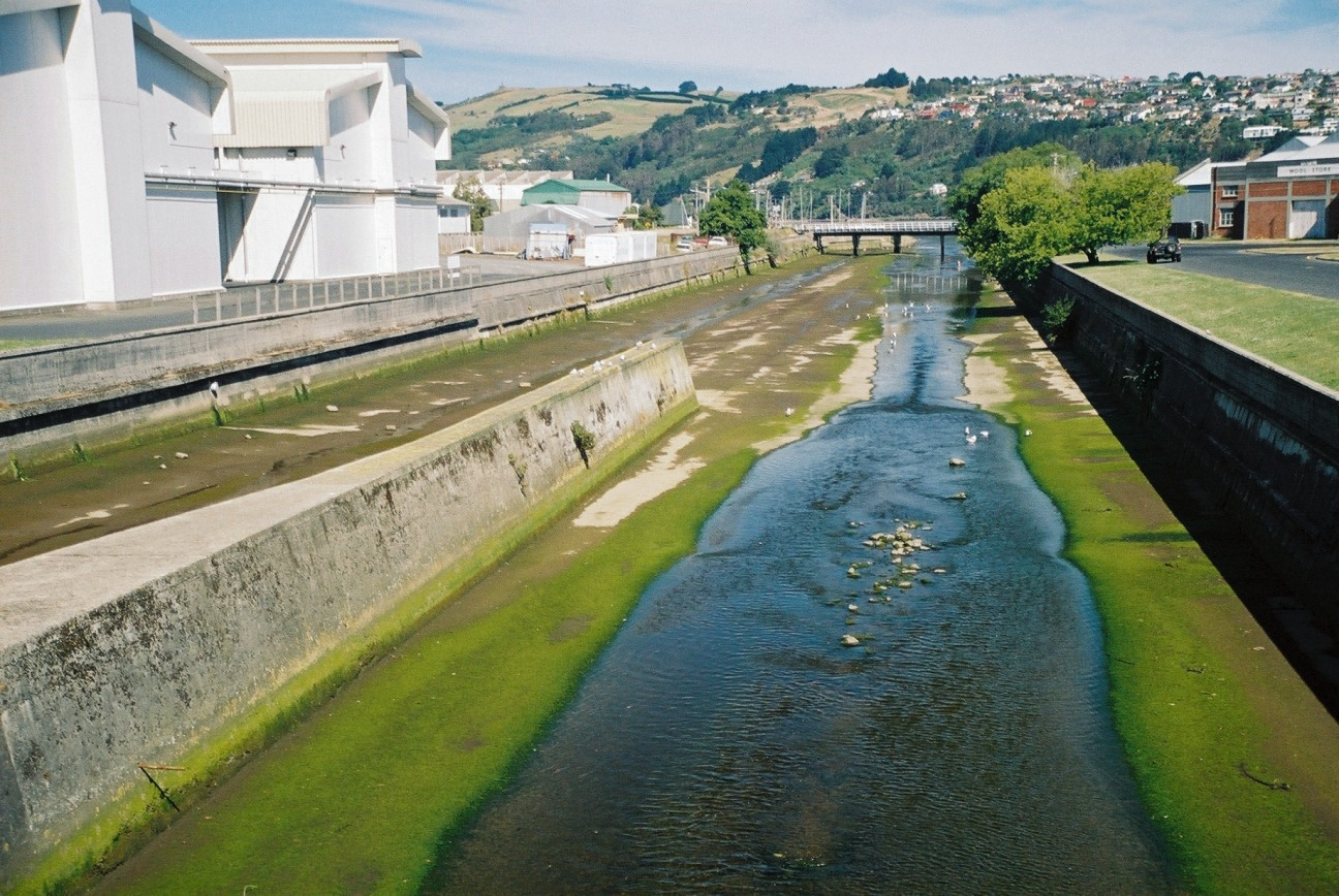 Water of Leith at Dunedin, New Zealand.